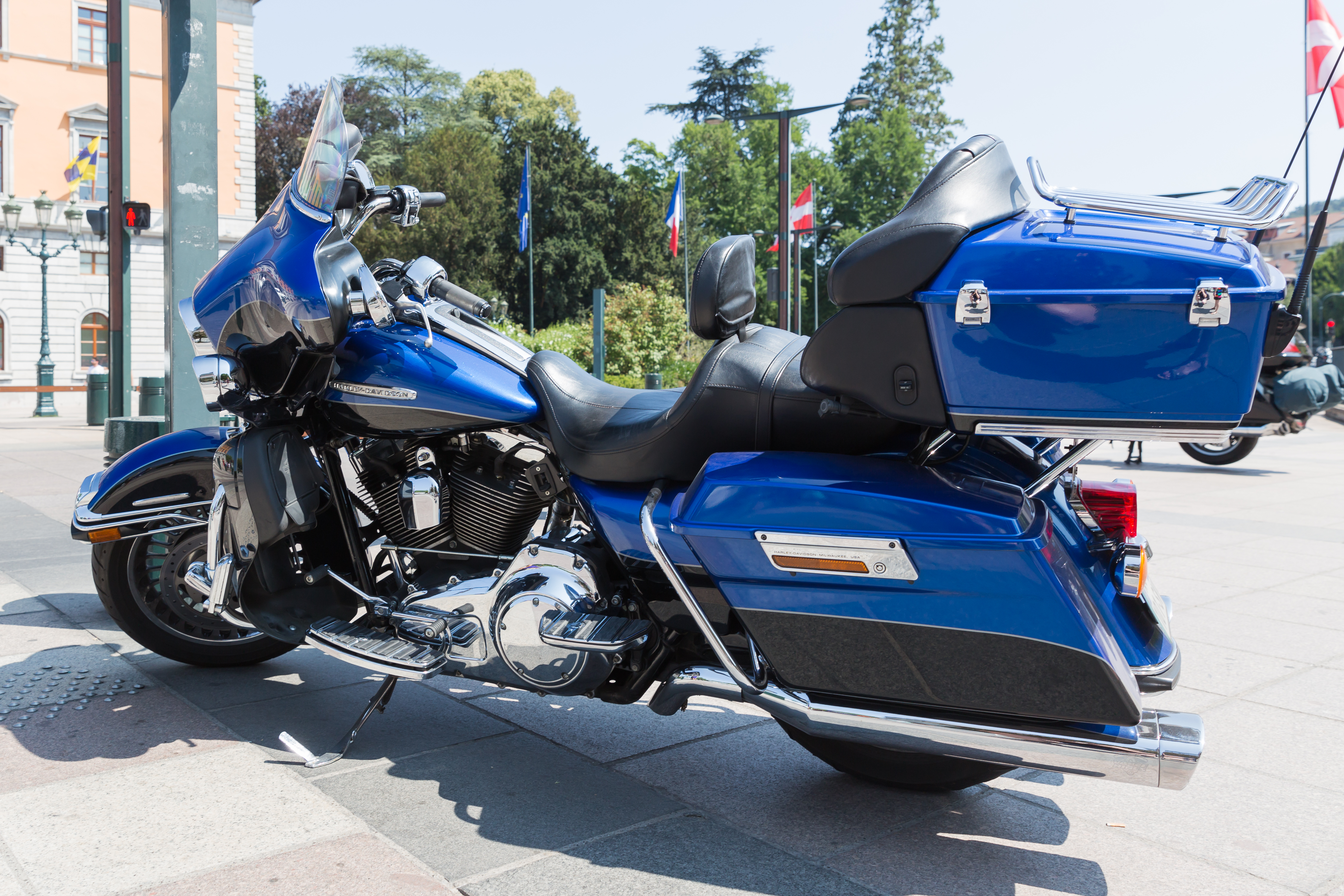 Harley-Davidson Electra Glide in Annecy, France